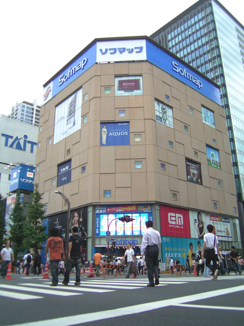 Sofmap Akihabara honkan, Tokyo, Japan